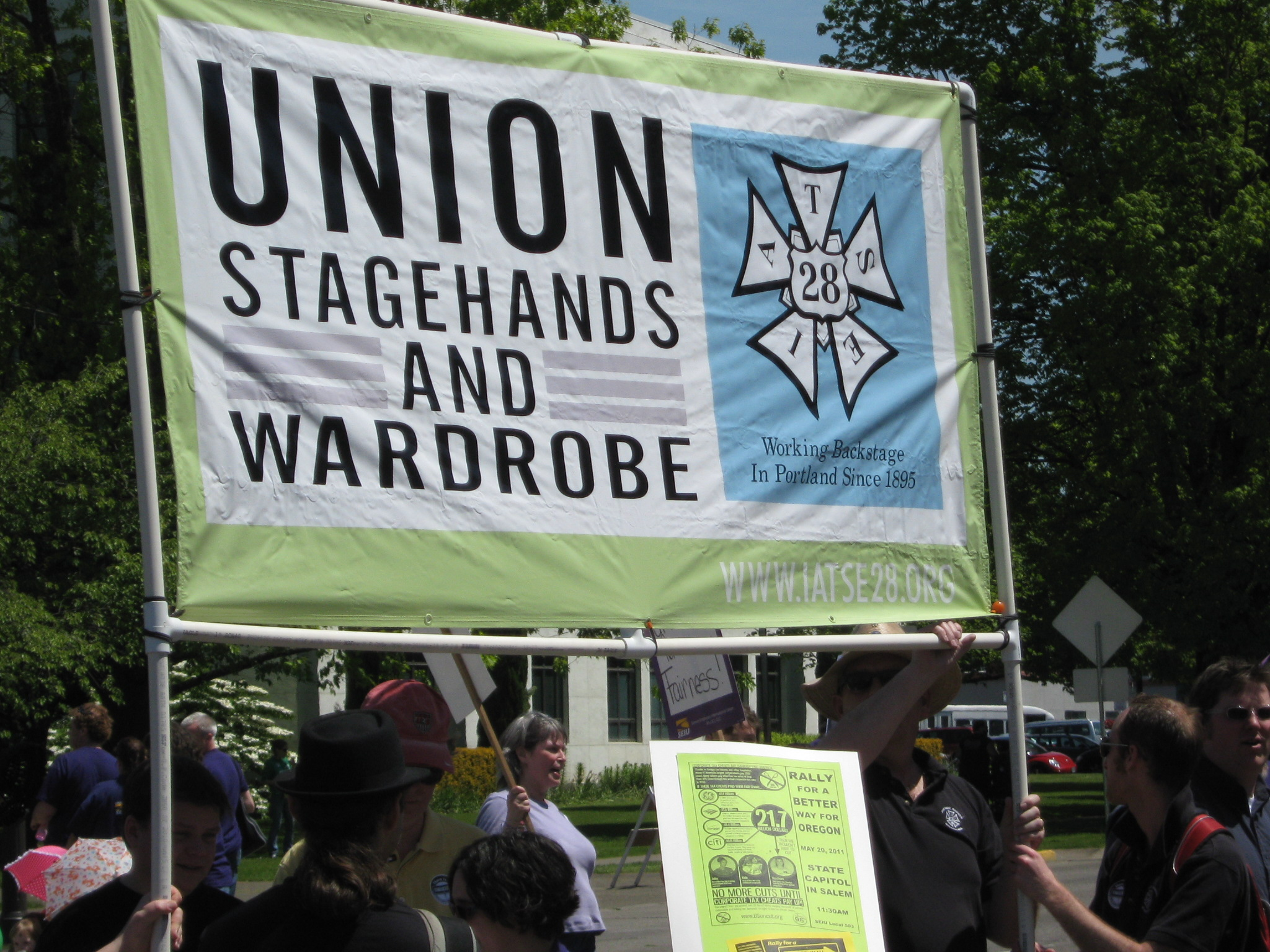 Banner of the Union of Stagehands and Wardrobe at the Oregon State Capitol during the SEIU/AFSCME union rally on May 20, 2011